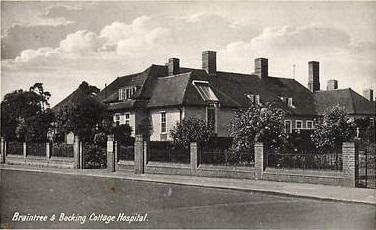 Image of Braintree and Bocking Cottage Hospital (hospital has since been demolished so no recent photograph is possible)